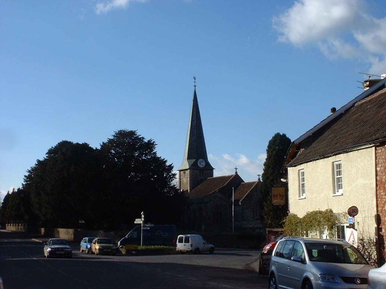 West Harptree village centre showing the church. Taken by Rod Ward on 4th March 2006